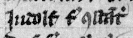 An excerpt from folio 29v of Lat. 4126 (the Chronicle of the Kings of Alba). The excerpt refers to Illulb mac Custantín (died 962). The excerpt reads "Indolf filius Constantini".